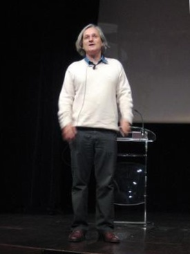 Mathematician Étienne Ghys at the conference on “Differential Geometry, Mathematical Physics, Mathematics and Society”, the 60th birthday conference for Jean Pierre Bourguignon, Bures-sur-Yvette, 2007.